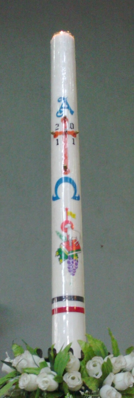 A paschal candle in Indonesian catholic curch